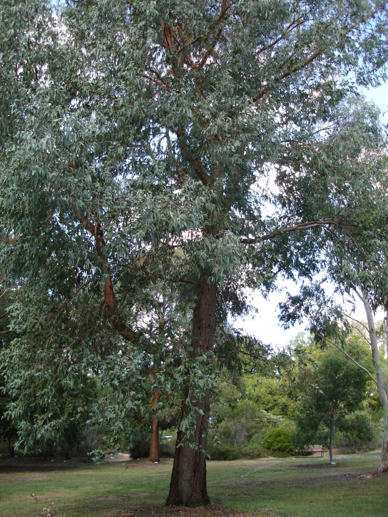 Photographed at Maranoa Gardens, Melbourne, Victoria, Australia HelloMojo 07:59, 6 April 2007 (UTC)